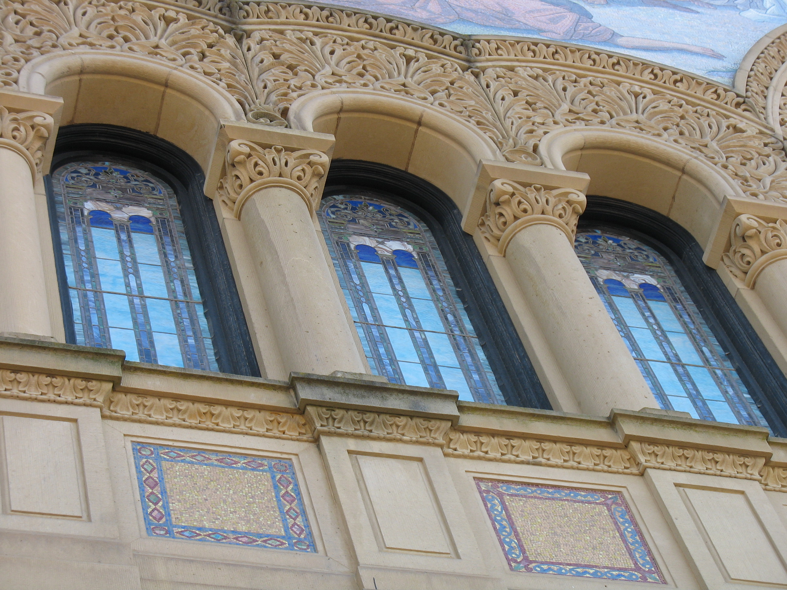 Some of the stained glass windows of Stanford Memorial Church, as seen from the church's exterior. The carvings were created in 1906 after an earthquake damaged the original structure; hence, they are in the public domain (PD-US).[1]